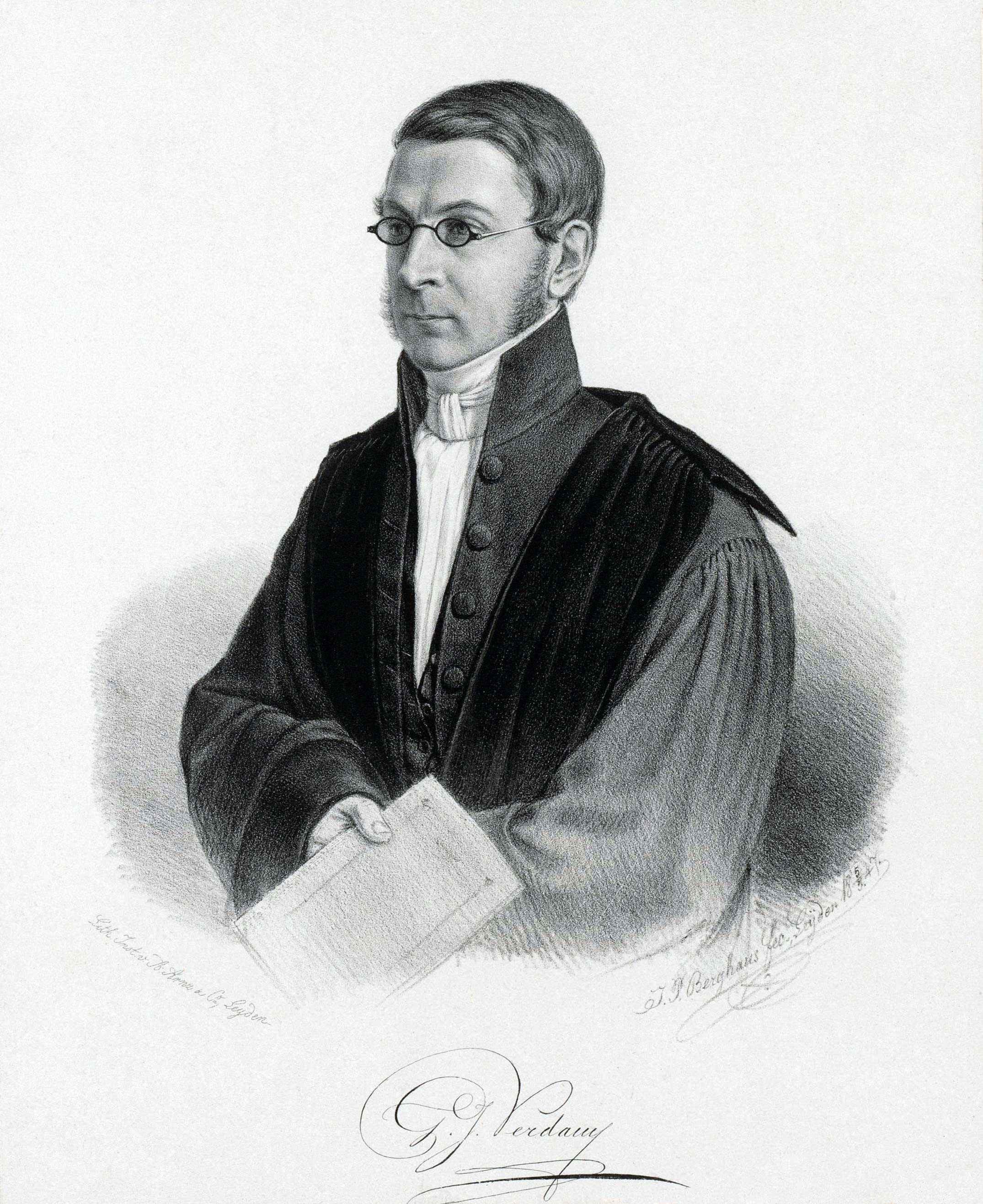 Gideon Jan Verdam (1802-1866), professor mathematics Leiden University